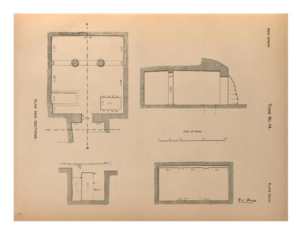 Plan and sections of the tomb BH14 of the nomarch Khnumhotep I at Beni Hasan. Reign of Amenemhat I, early 12th Dynasty, Middle Kingdom. [Percy Newberry, Beni Hasan part I, pl. XLIII]